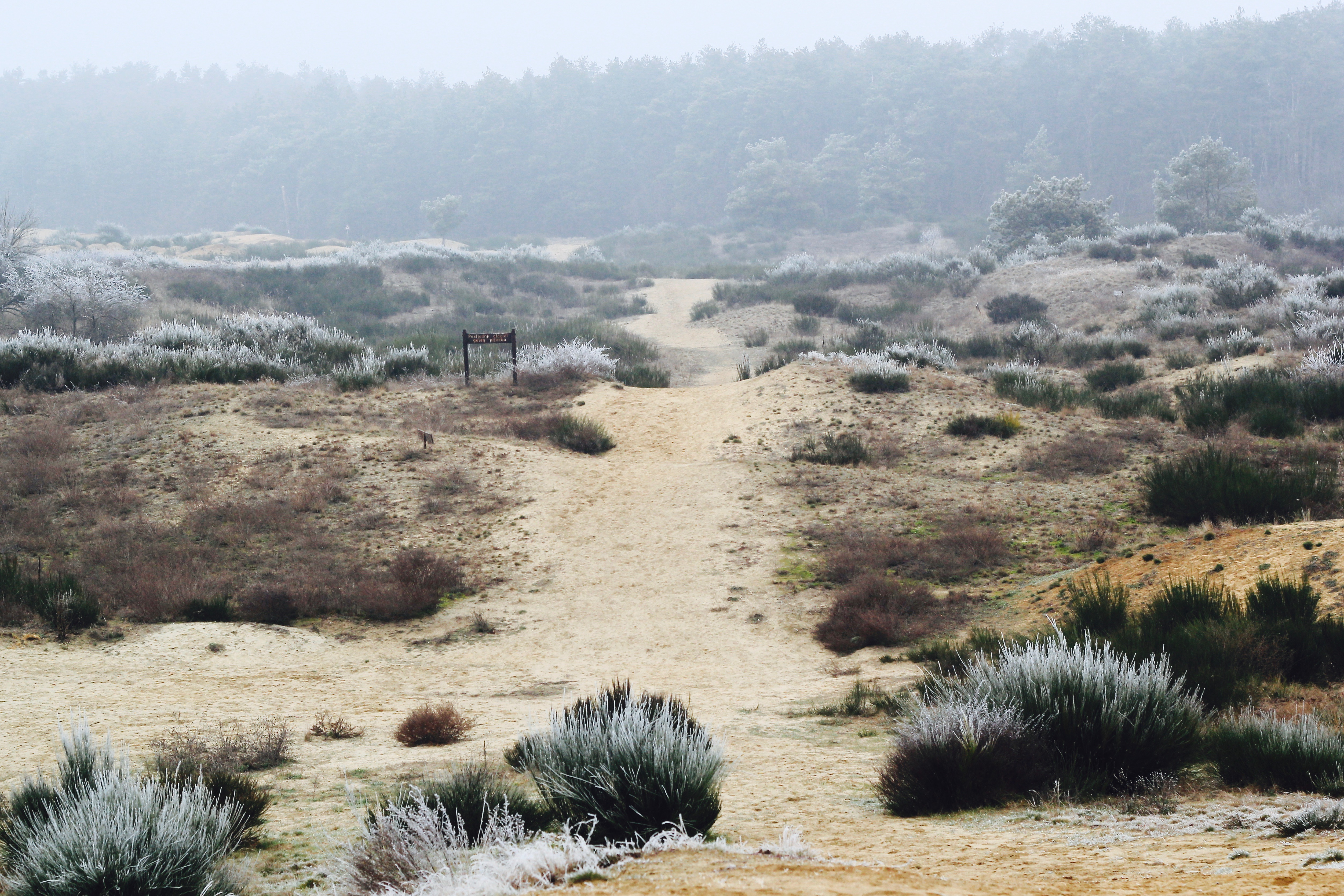 The remains of the only Croatian desert